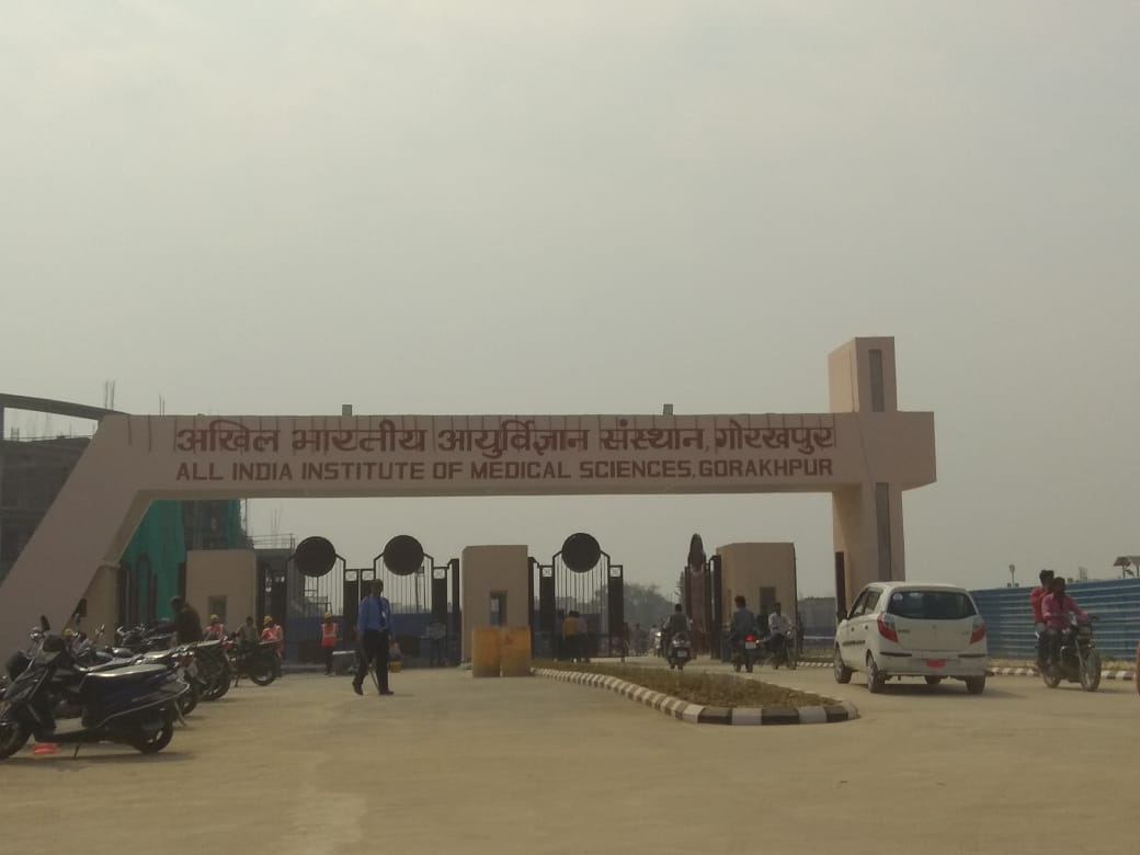 AIIMS Gorakhpur.jpg